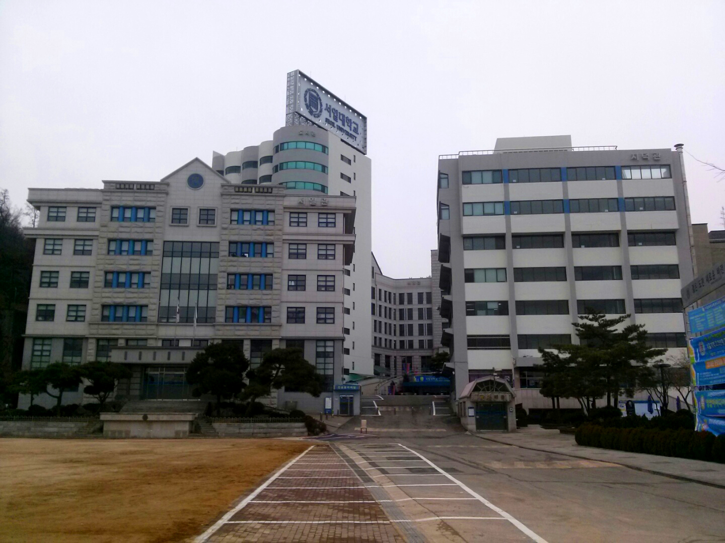 Seoil College, Seoul, Republic of Korea